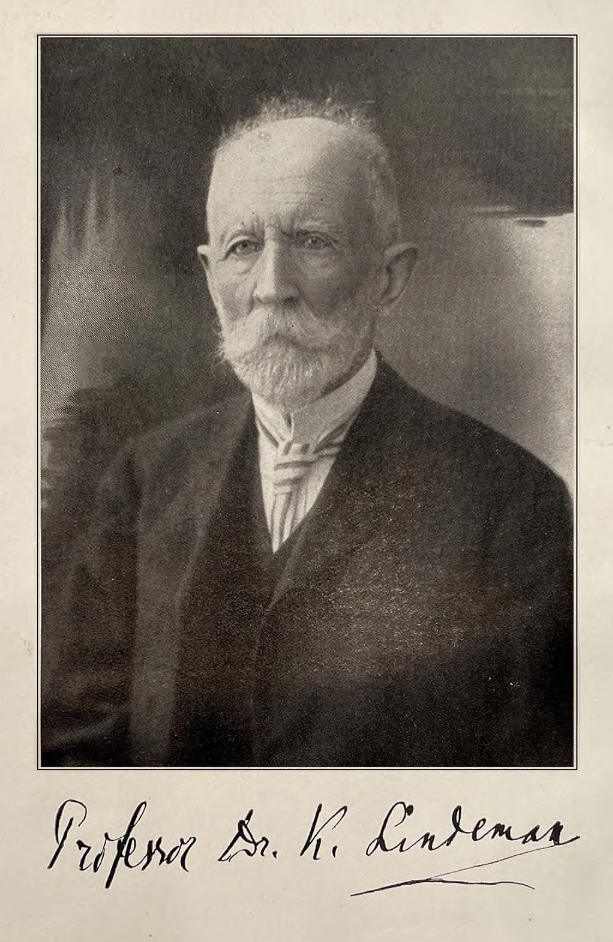 Karl Lindeman